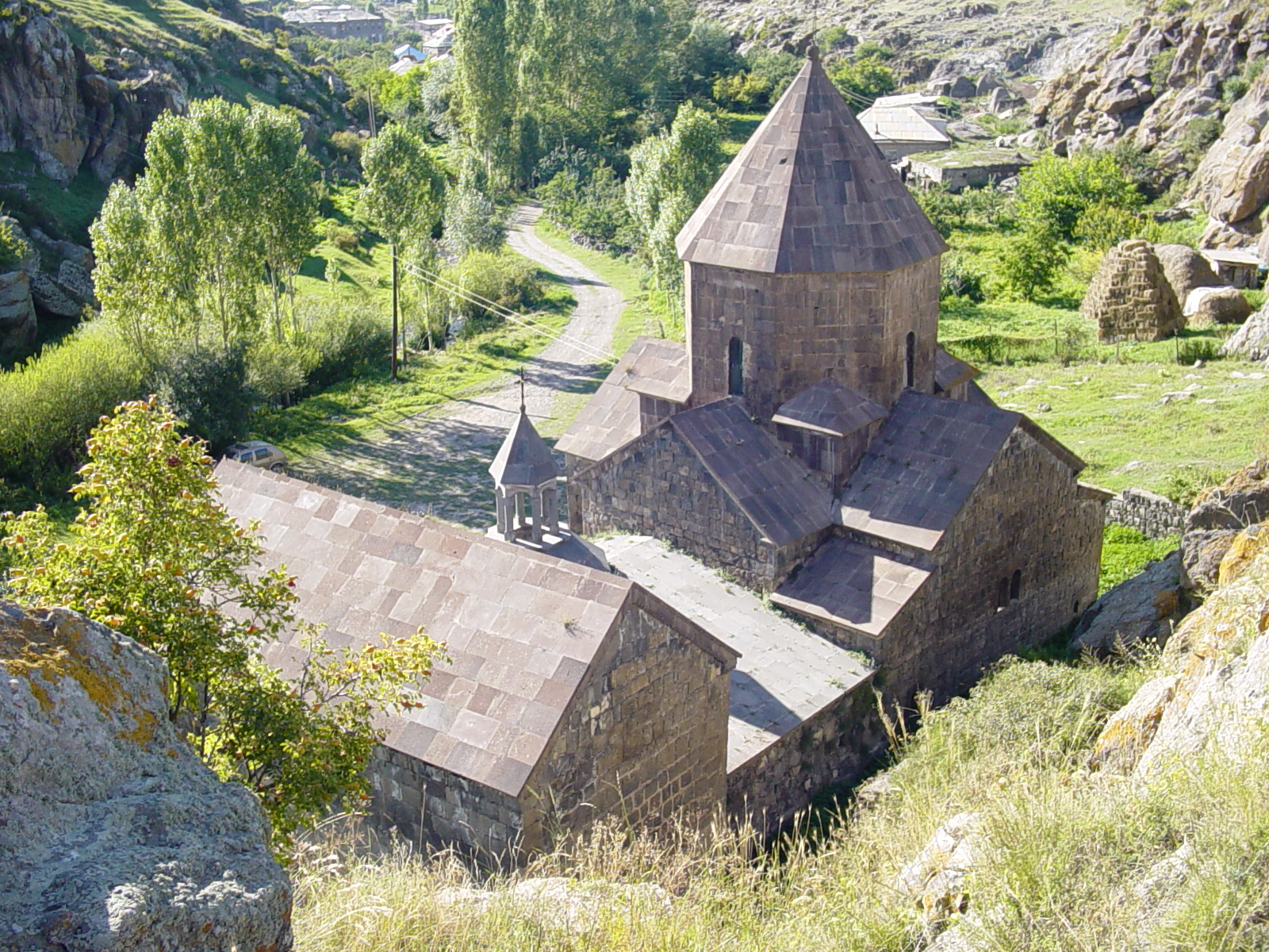 Monastery complex Vanevank, 10-14c.